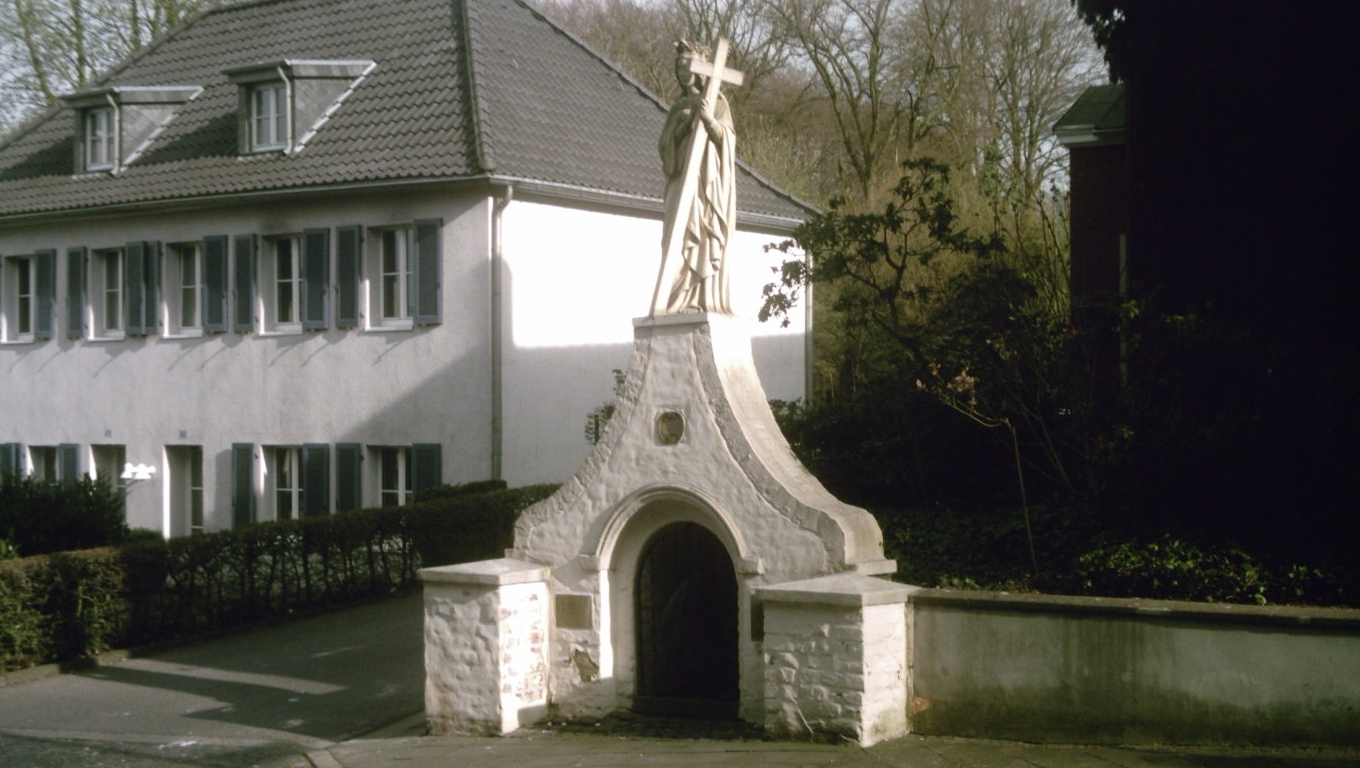 Saint Helen's Well in Helenabrunn, Viersen, Germany